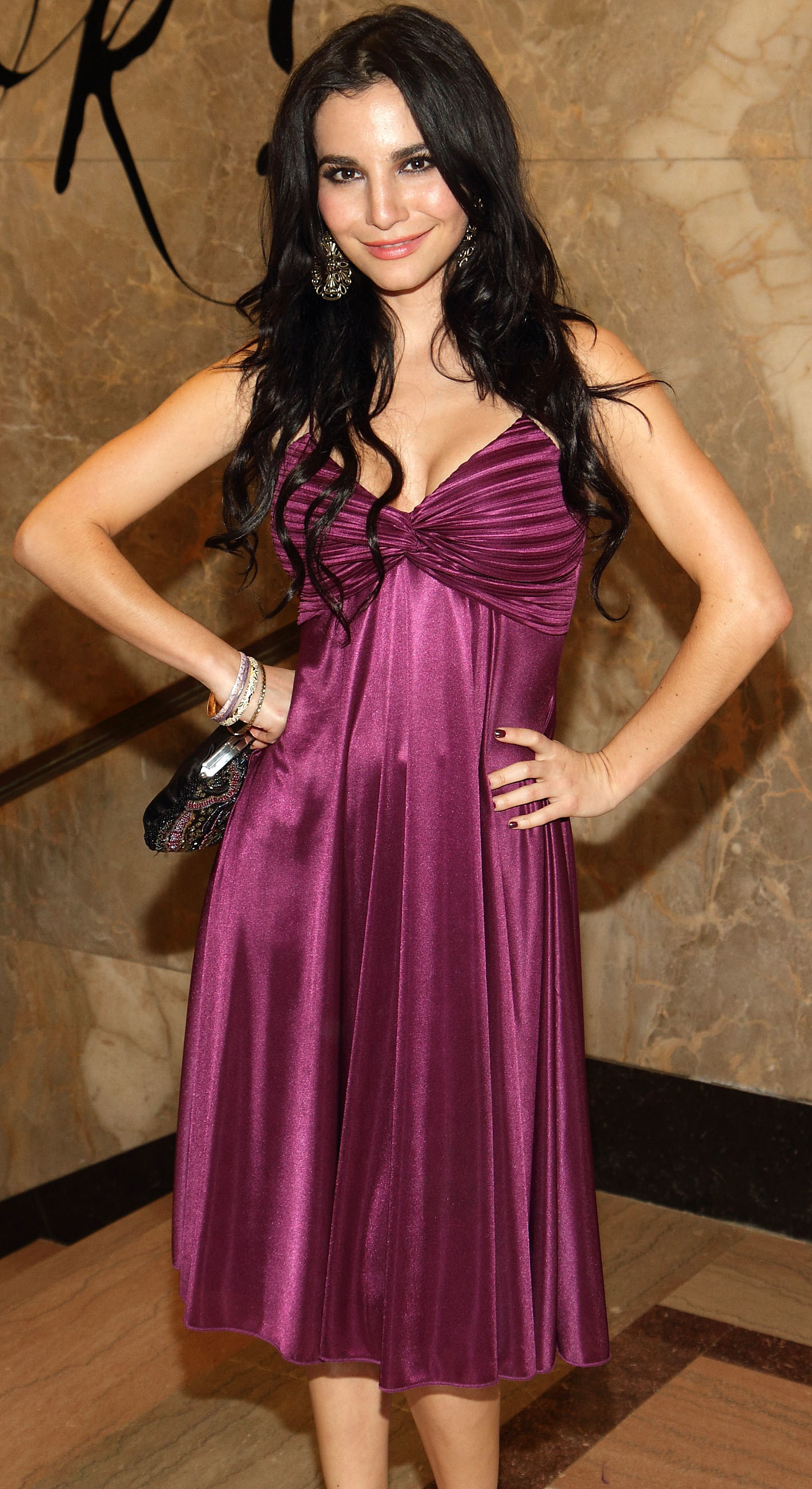 Actress Martha Higareda at the 2012 Miami International Film Festival XO Cafe Noir Opening Night Party Friday, March 2, 2012 at the Historic Alfred I. Dupont Building